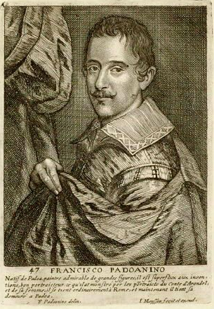 Print of the Dutch painter Francisco Padovanino in the book Het Gulden Cabinet, by Cornelis de Bie.